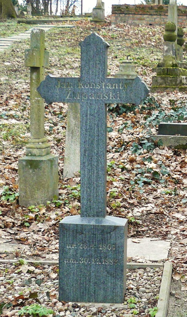 Jan Konstanty Zupanski Tomb, Poznan.